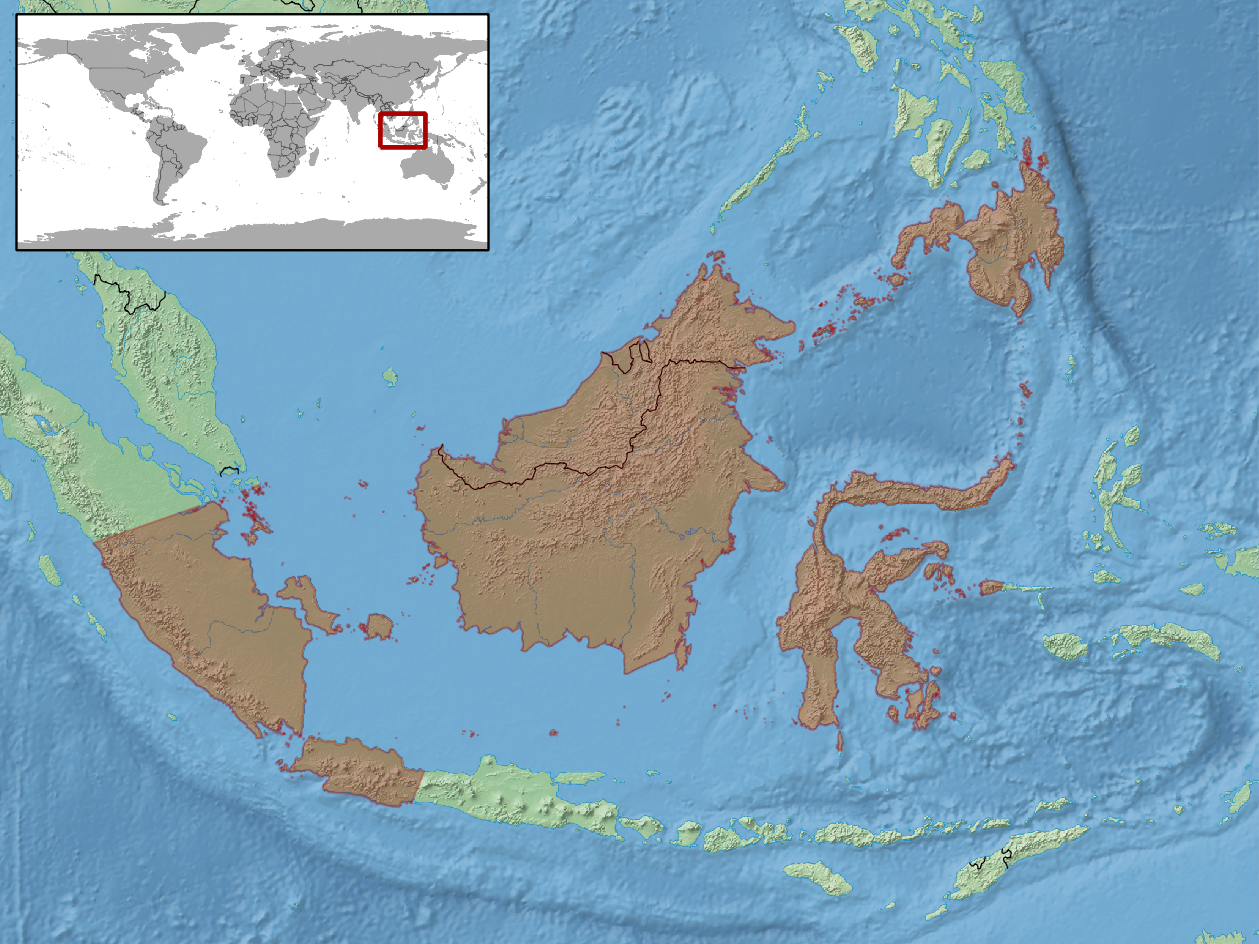 geographic distribution of Calamaria virgulata (Native: Indonesia (Bali, Jawa, Kalimantan, Sulawesi, Sumatera); Malaysia (Sabah, Sarawak); Philippines)